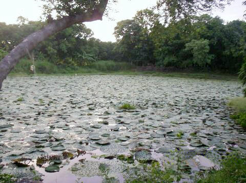 The cultivated Euryale ferox at Dipor Bil, northern India.